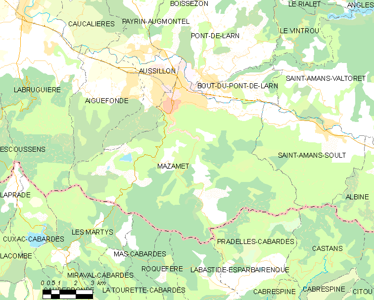 Map commune FR insee code 81163.png - Mazamet